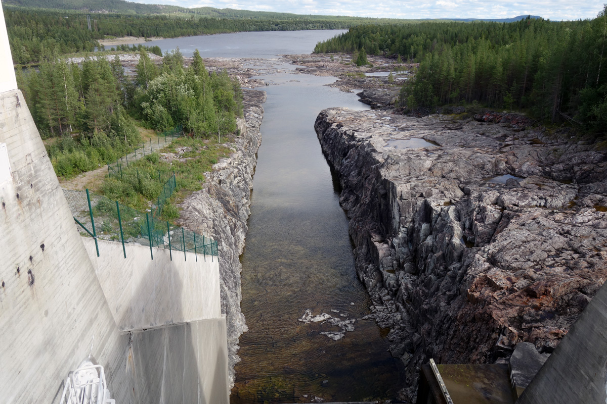 Outflow through the Grundfors hydroelectric power dam in the River Umeälven, northern Sweden